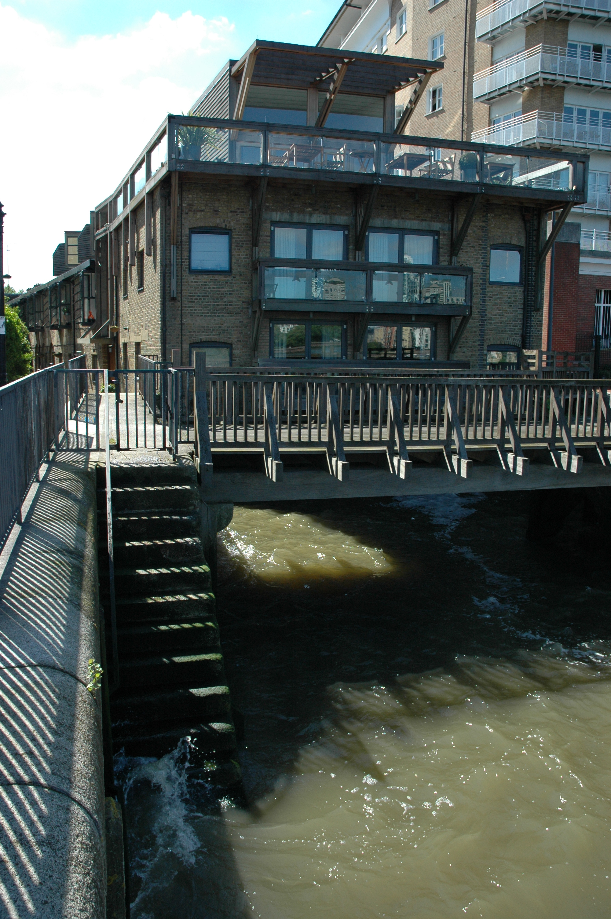 River view of Odessa Wharf